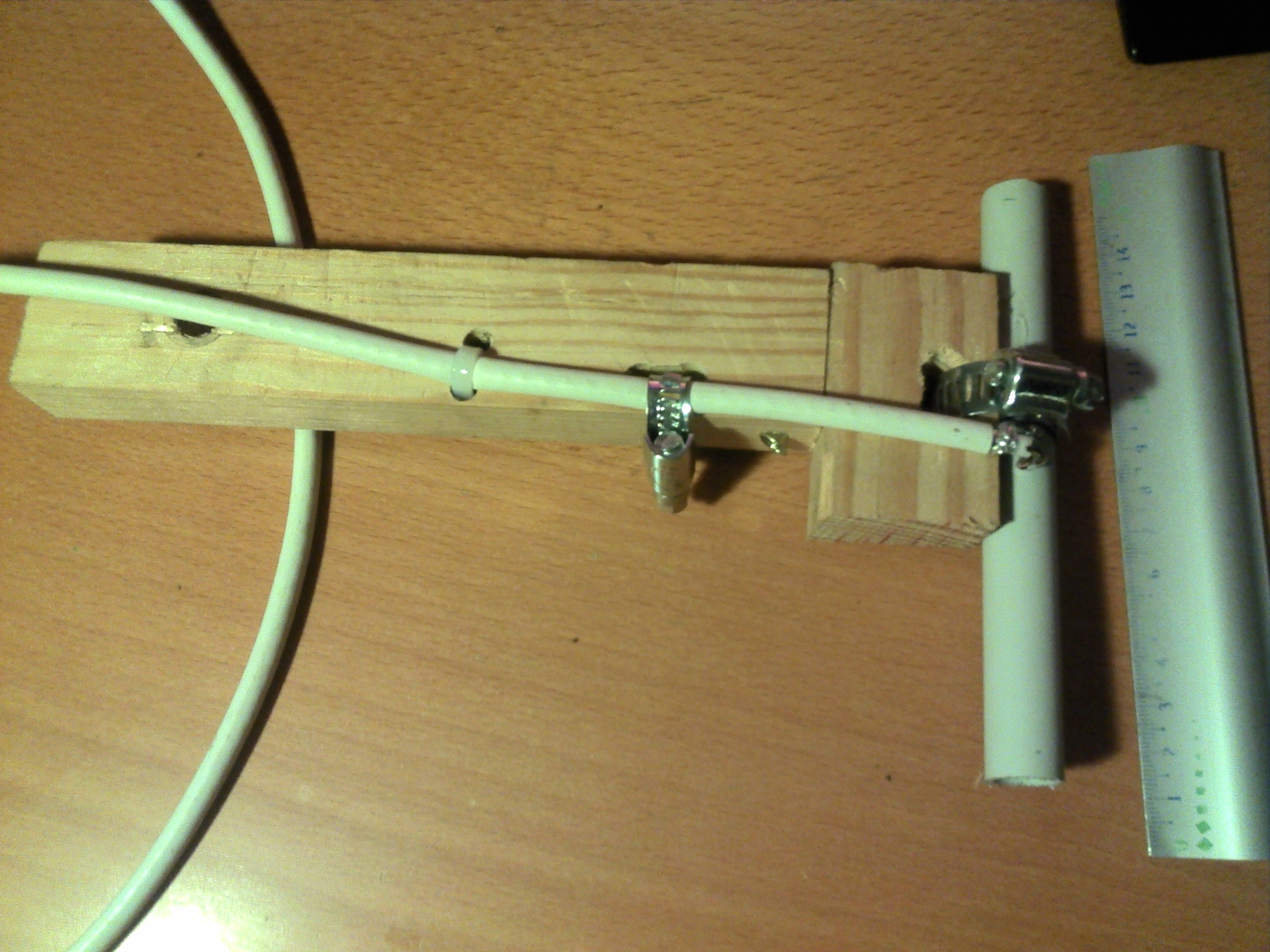 A homemade 1090 MHz ADS-B dipole antenna which can be used to track airplanes using a simple SDR